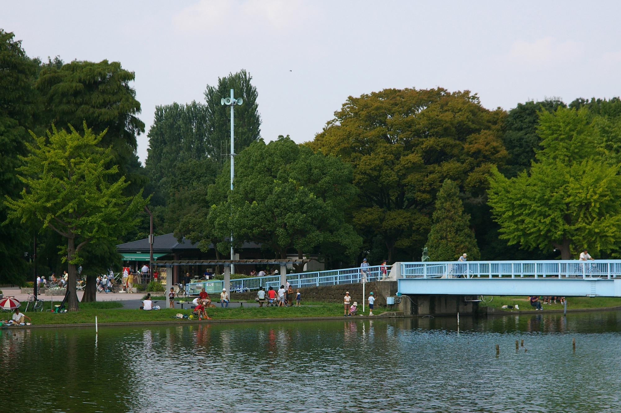 Mizumoto-kōen, Katsushika, Tokyo.